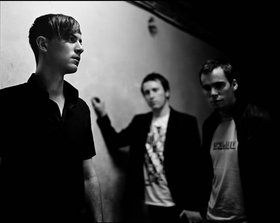 by Galgóczy Németh Kristóf